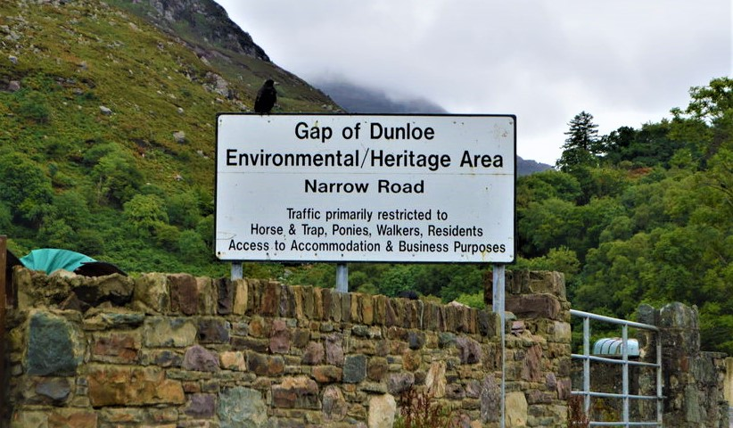 Photograph of the private sign that the private Jaunting Car operators use at Kate Kearney's Cottage to dissuade drivers from using the public road through the Gap of Dunloe